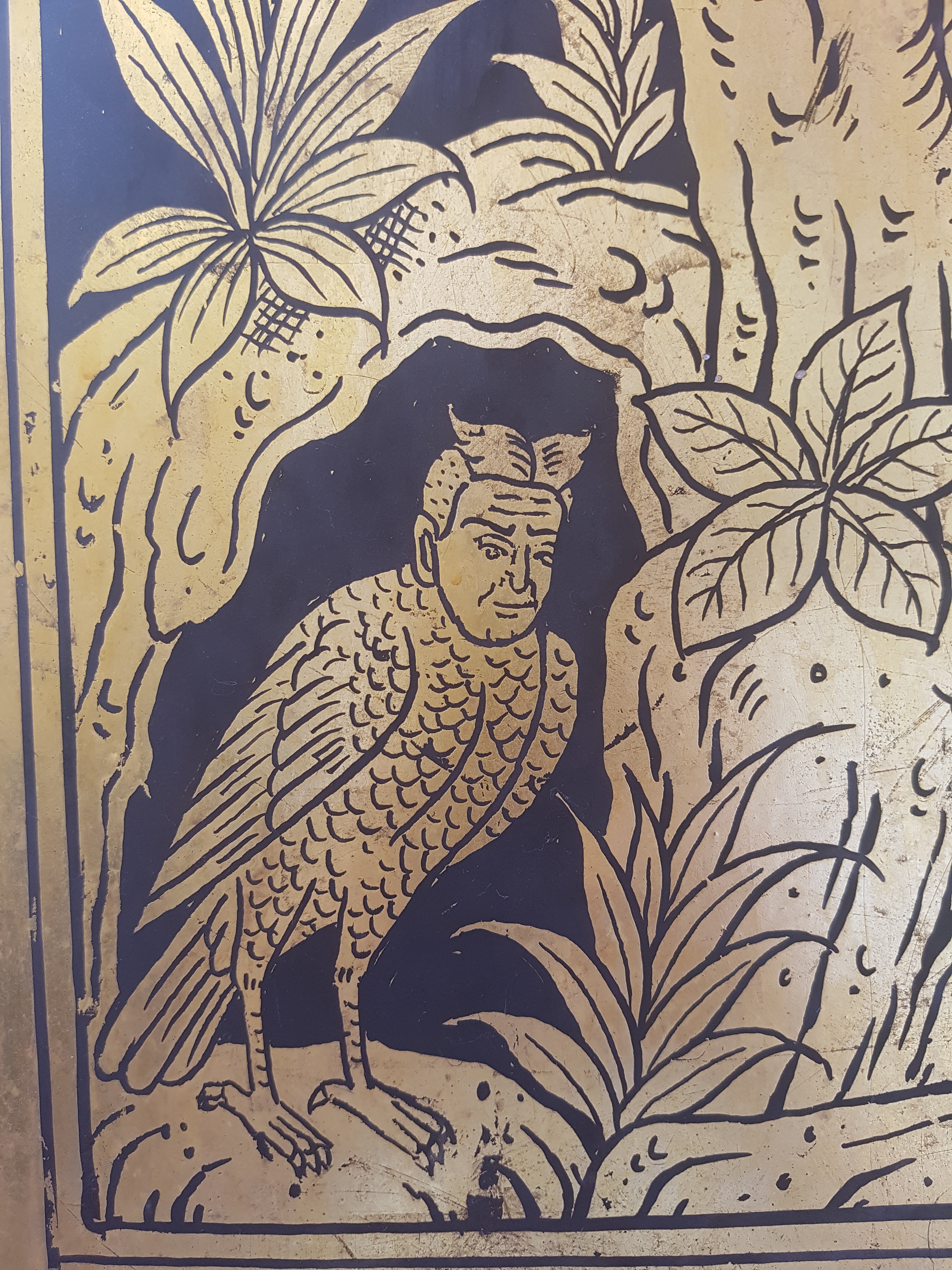 Wat Pho, Bangkok, Thailand.